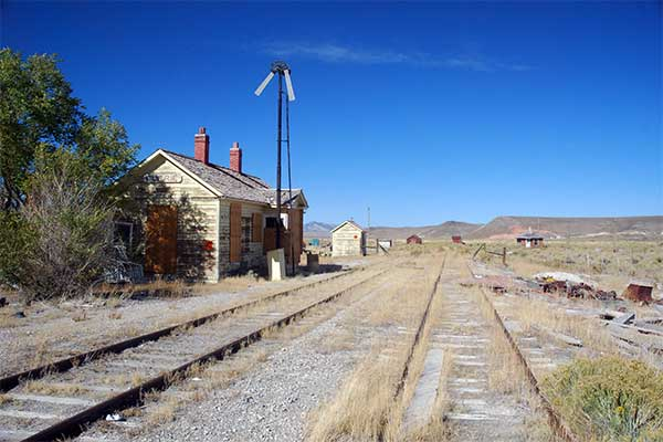 The abandoned Nevada Northern Railway depot in Currie. View to north.